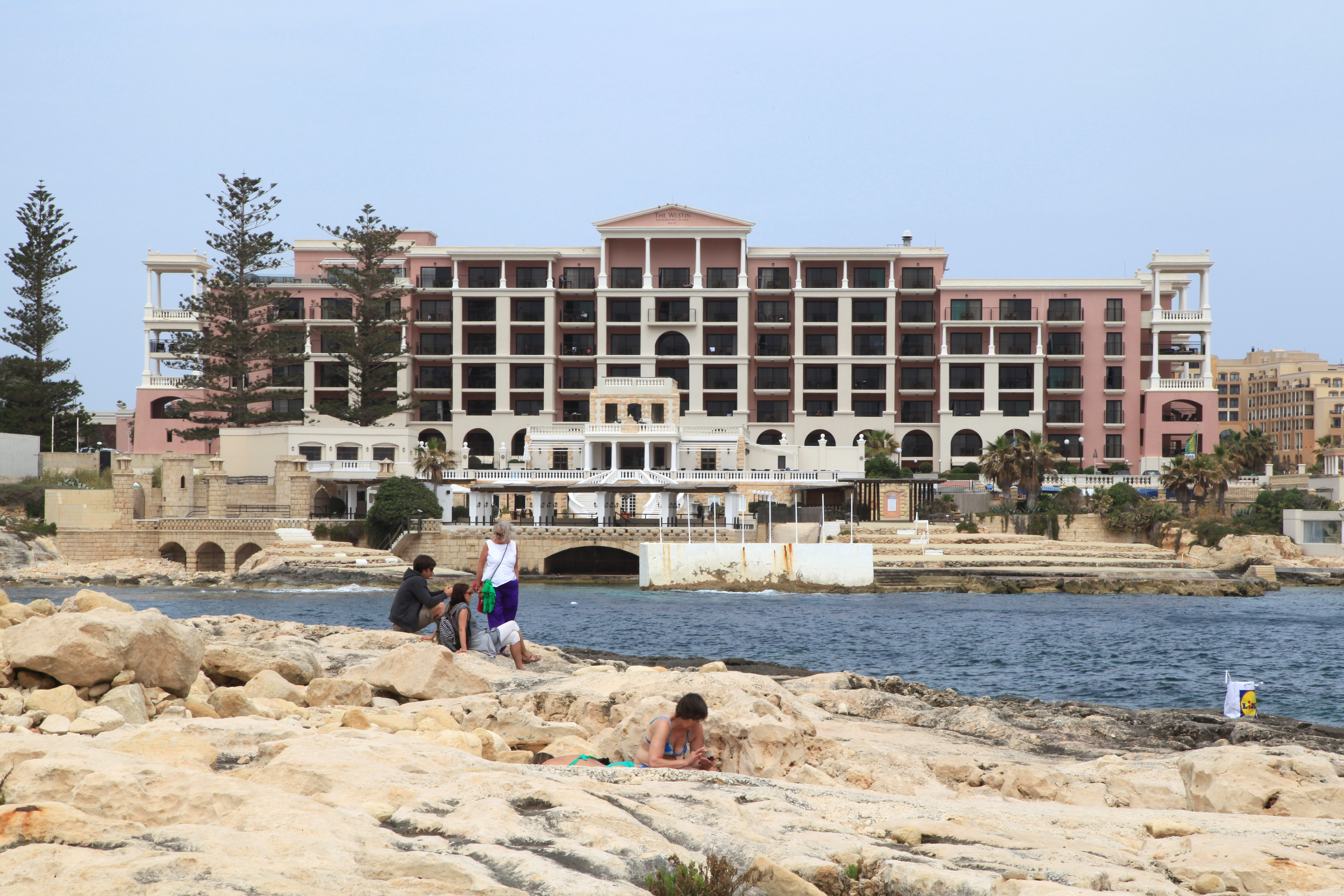 Triq il-Wilga (front) and Triq id-Dragunara (rear) in St. Julian's, Malta